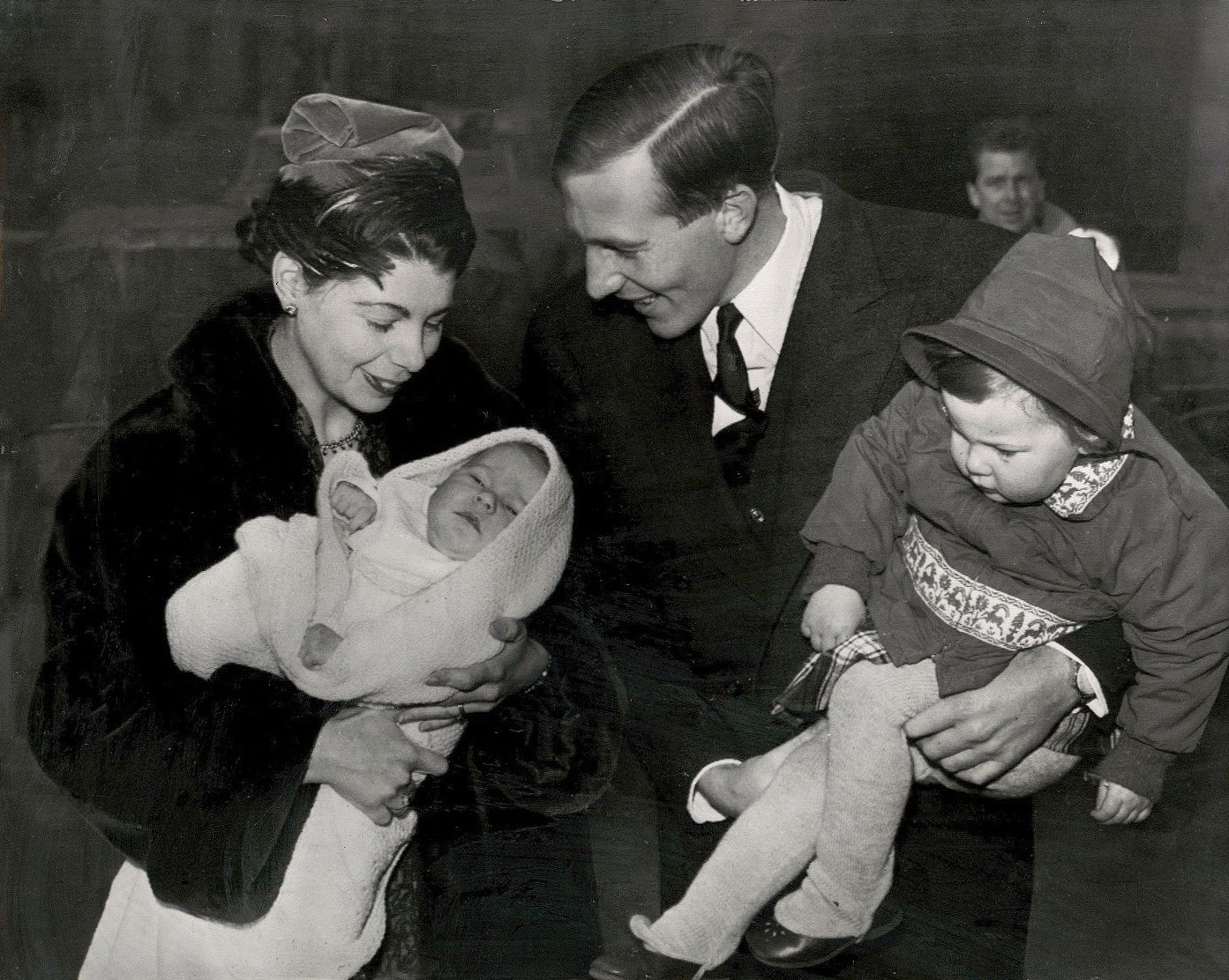 1959 AP Wire Photo family Roger Bannister wife Moyra son Clive daughter Erin